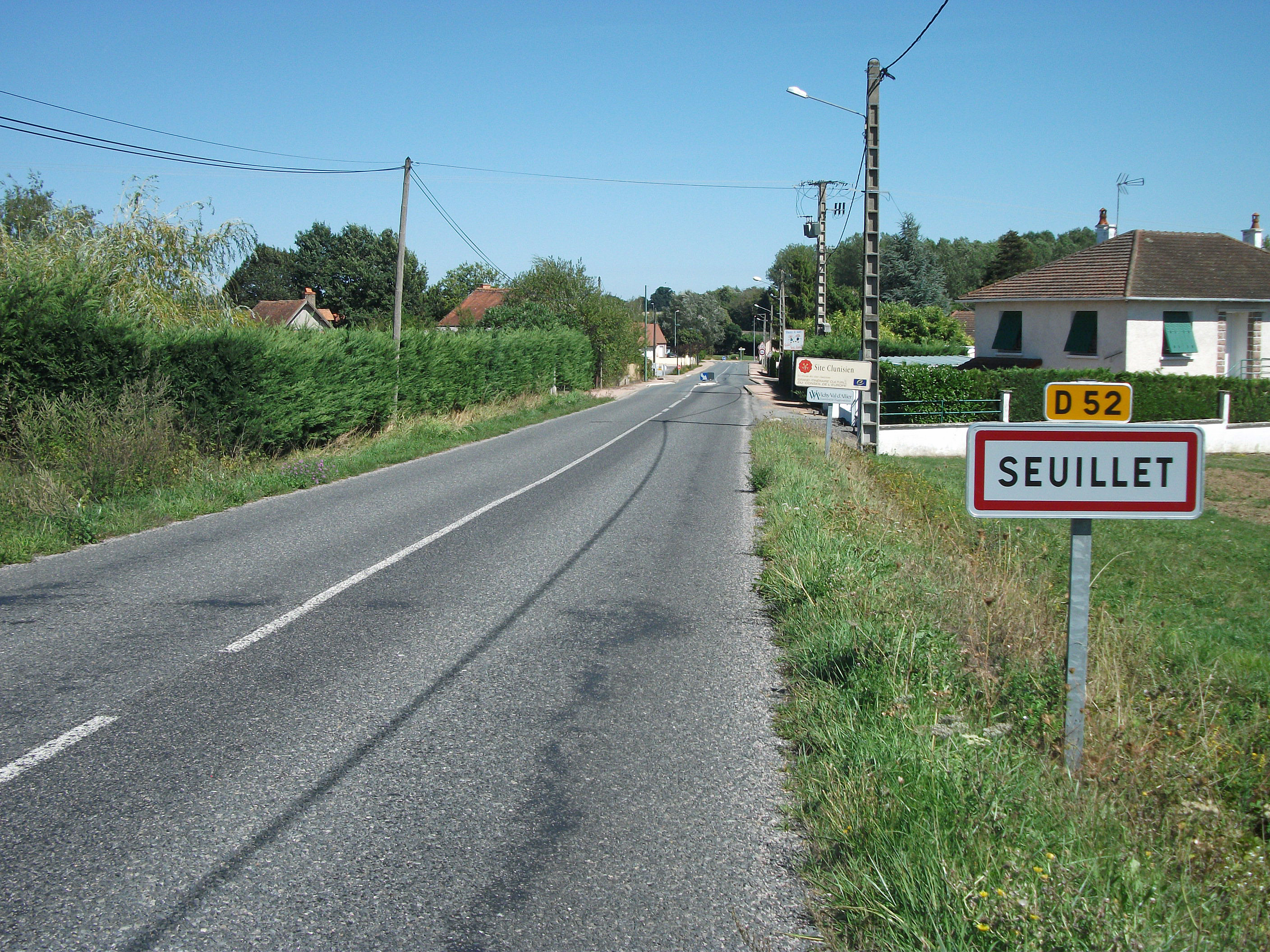 Entrance of Seuillet by departmental road 52 [8863]